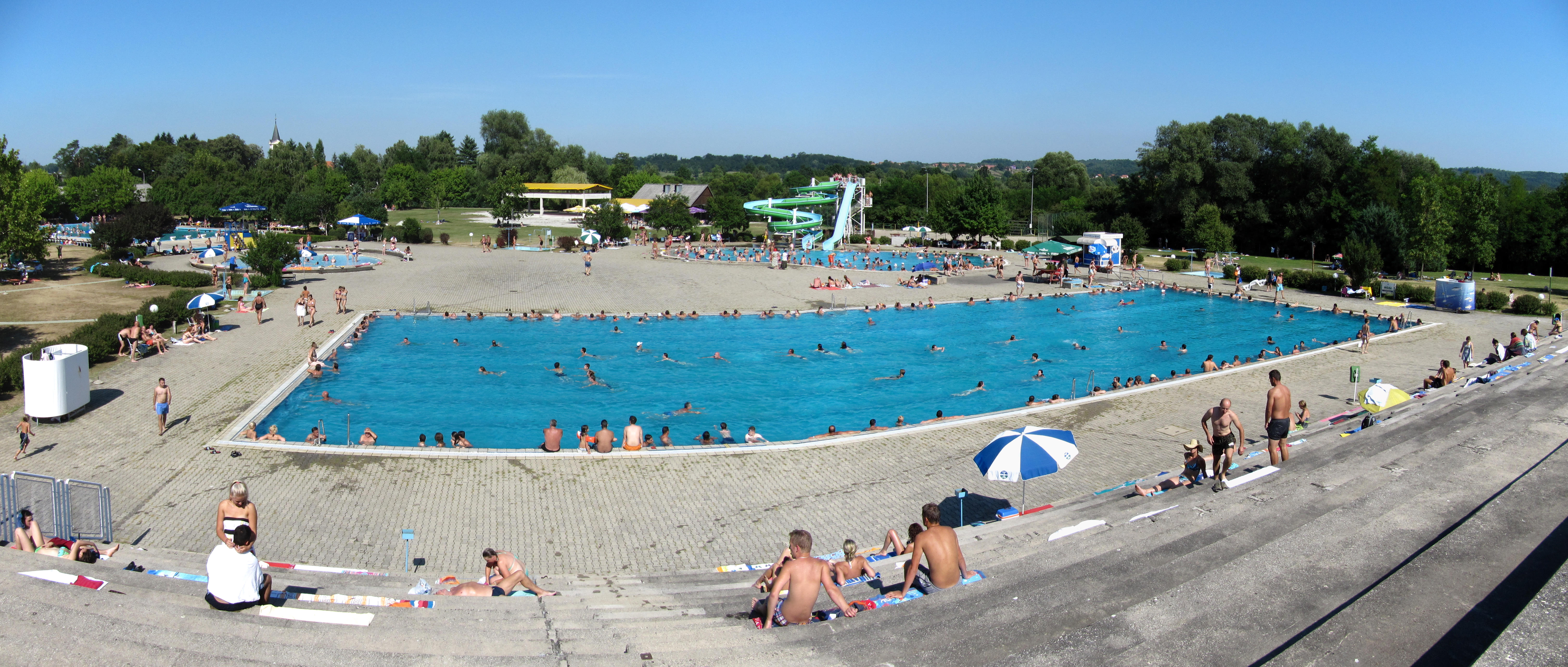 Panorama of spa pools in Topusko, Croatia.